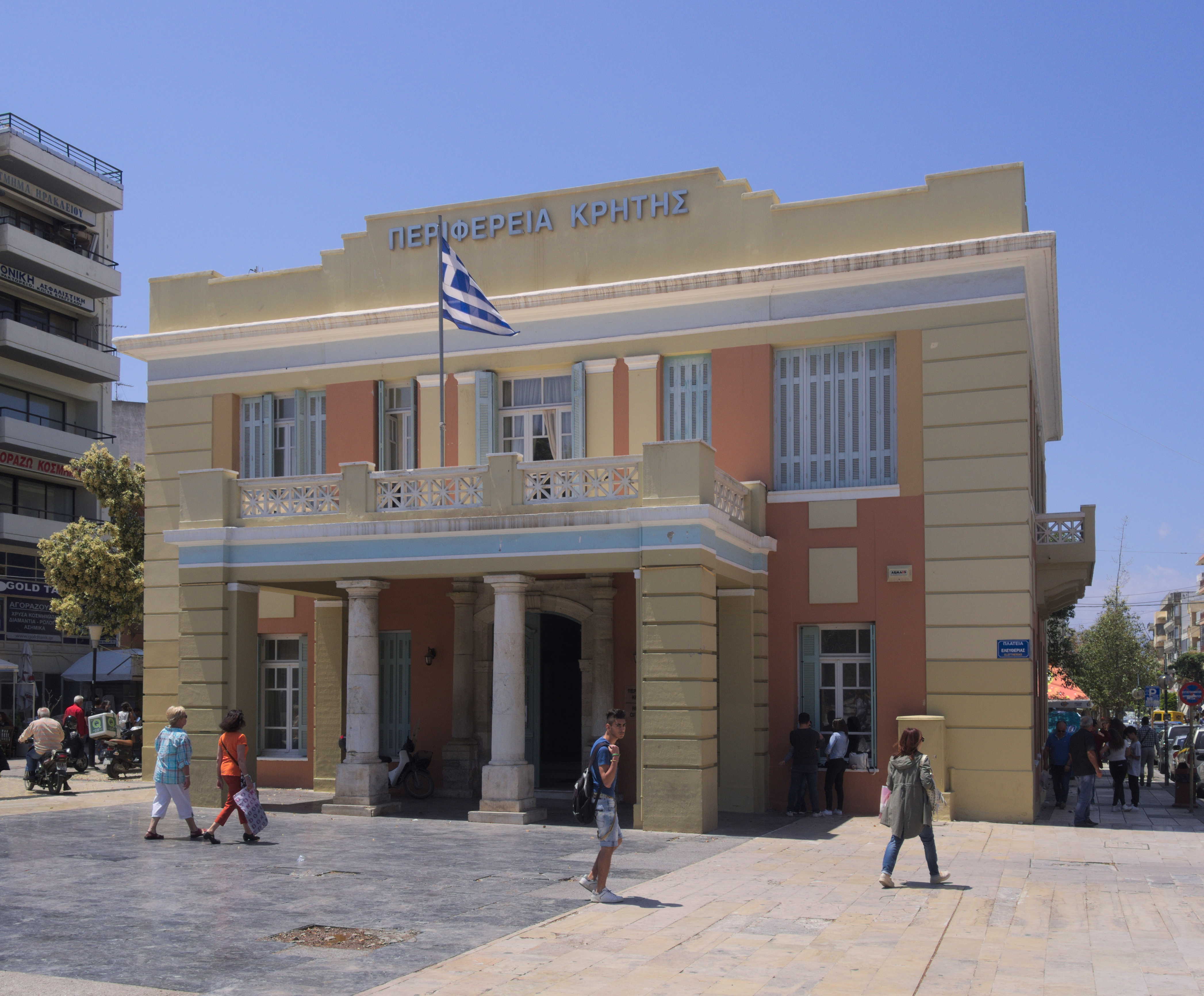 The building of Crete prefecture in Heraklion. The original structure dates from the 1883 as barracks and was renovated in 1920s to become an office building